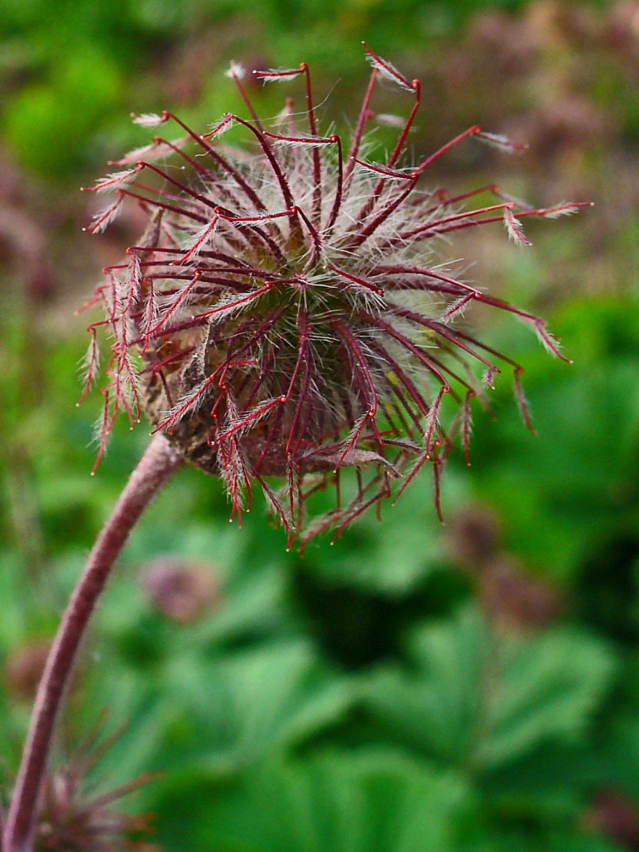 Geum rivale, Rosaceae, Water Avens, infrutescence.